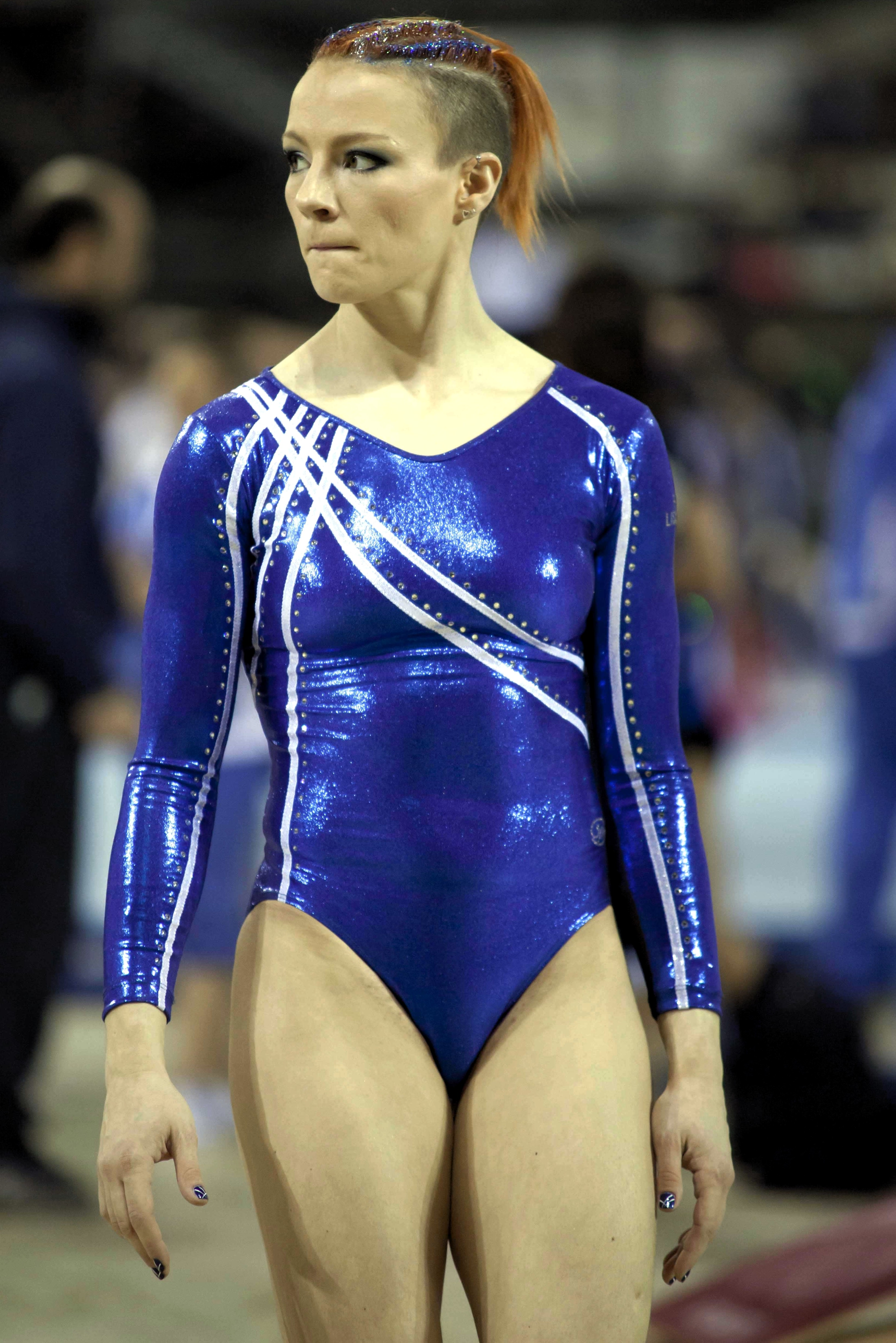 Marta Pihan-Kulesza wearing the leotard of Pro Lissone